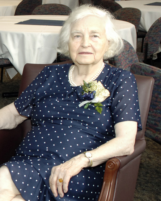 Daughters Louise Karle Hanson, center and Madeleine Karle ready their parents, Drs. Jerome and Isabella Karle, for their retirement from the Naval Research Laboratory (NRL) following a combined 127 years of government service. The Secretary of the Navy (SECNAV) Ray Mabus presented the Department of the Navy Distinguished Civilian Service Award to the Karles. Among their many awards and honors, Dr. Jerome Karle's work in crystal structure analysis was awarded the 1985 Nobel Prize in Chemistry and Dr. Isabella Karle was awarded the National Medal of Science from President Clinton in 1995 for her pioneering work in devising methods to determine crystal structure. (U.S. Navy Photo by John F. Williams/Released)